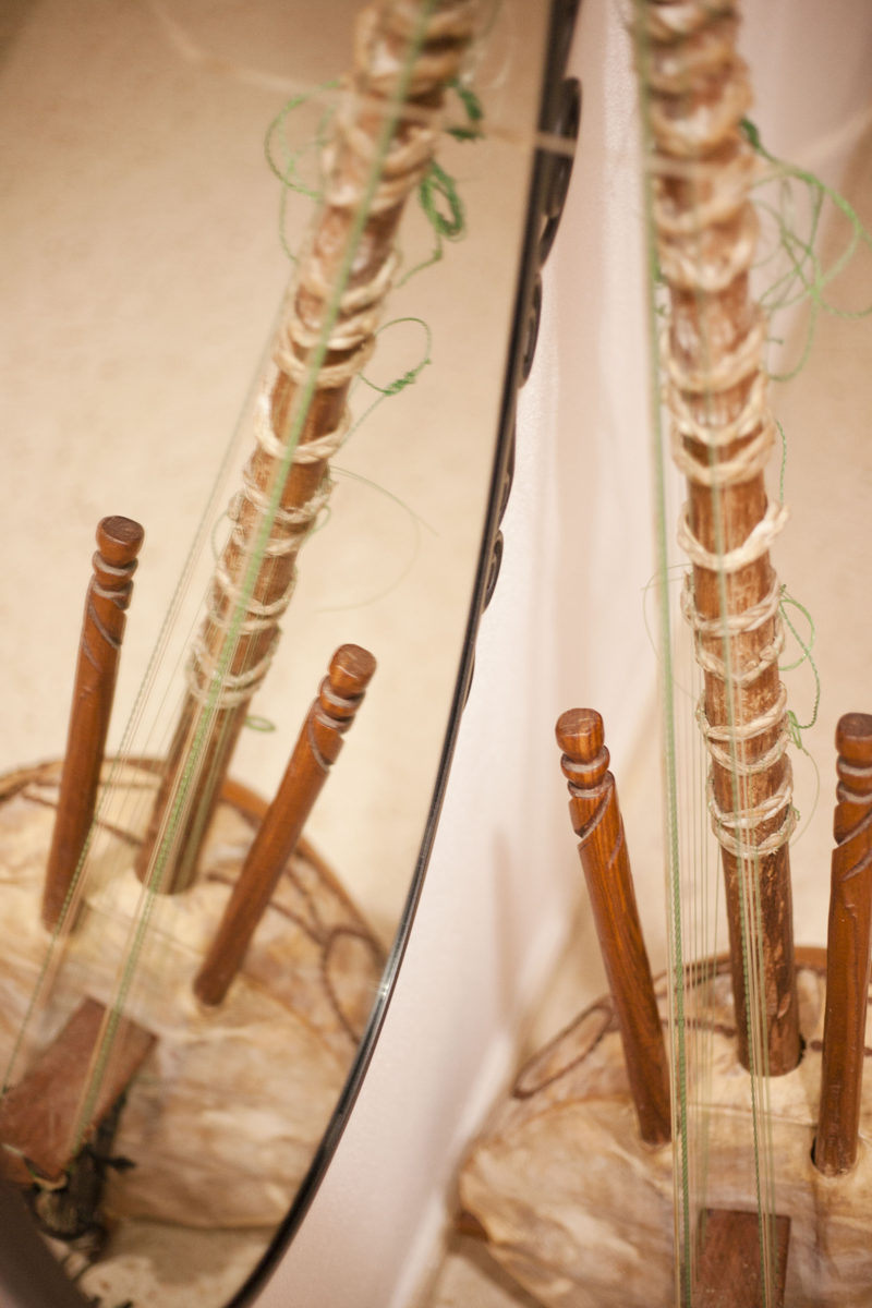 Senegal Kora